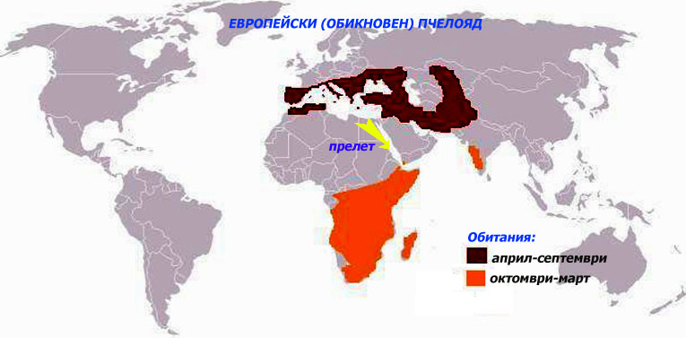 map of the Distribution of the European Bee aeter -Merops apiaster